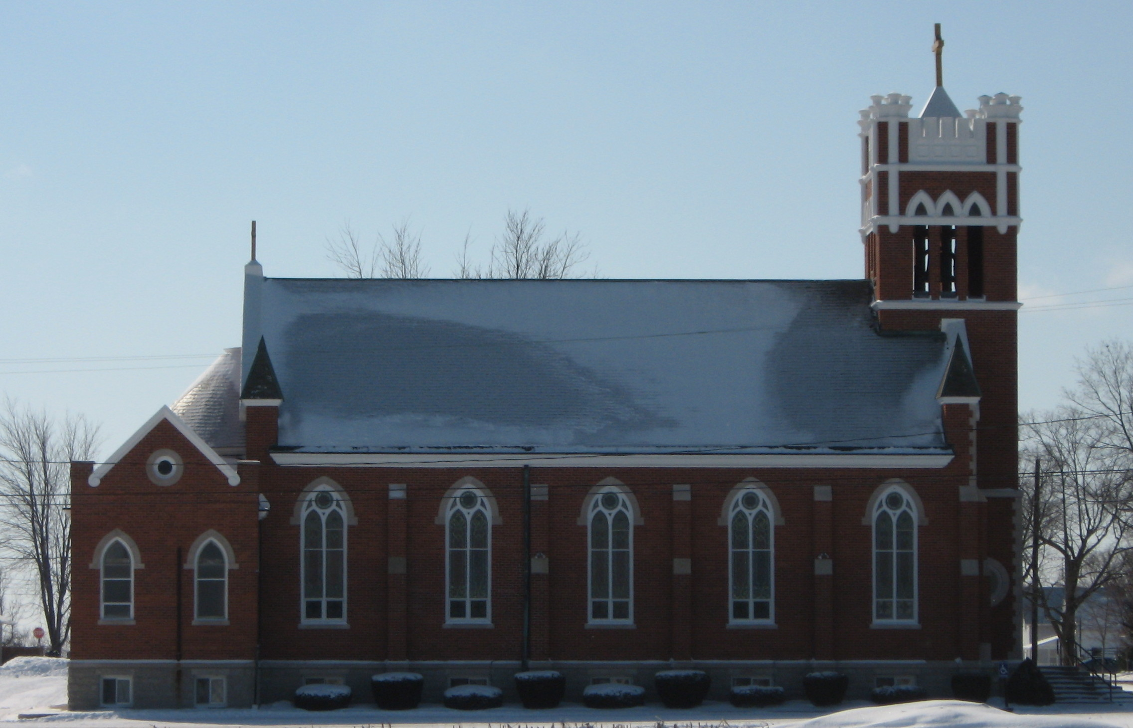 Welcome to Blakeslee sign on North end of town near St. Joseph Church. Blakeslee, Ohio